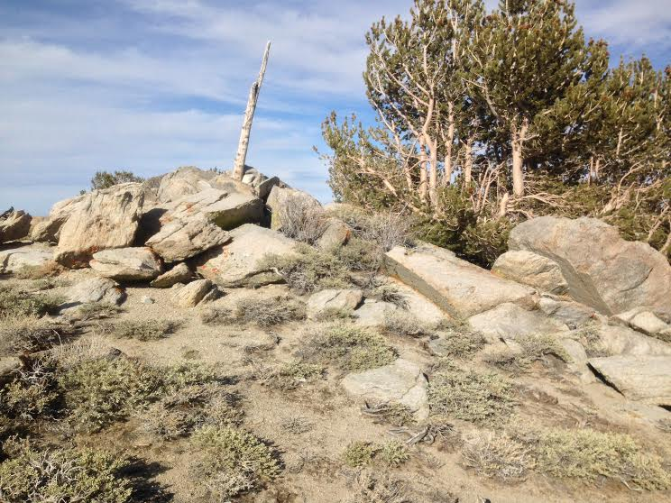 This is the summit of Waucoba Mountain.